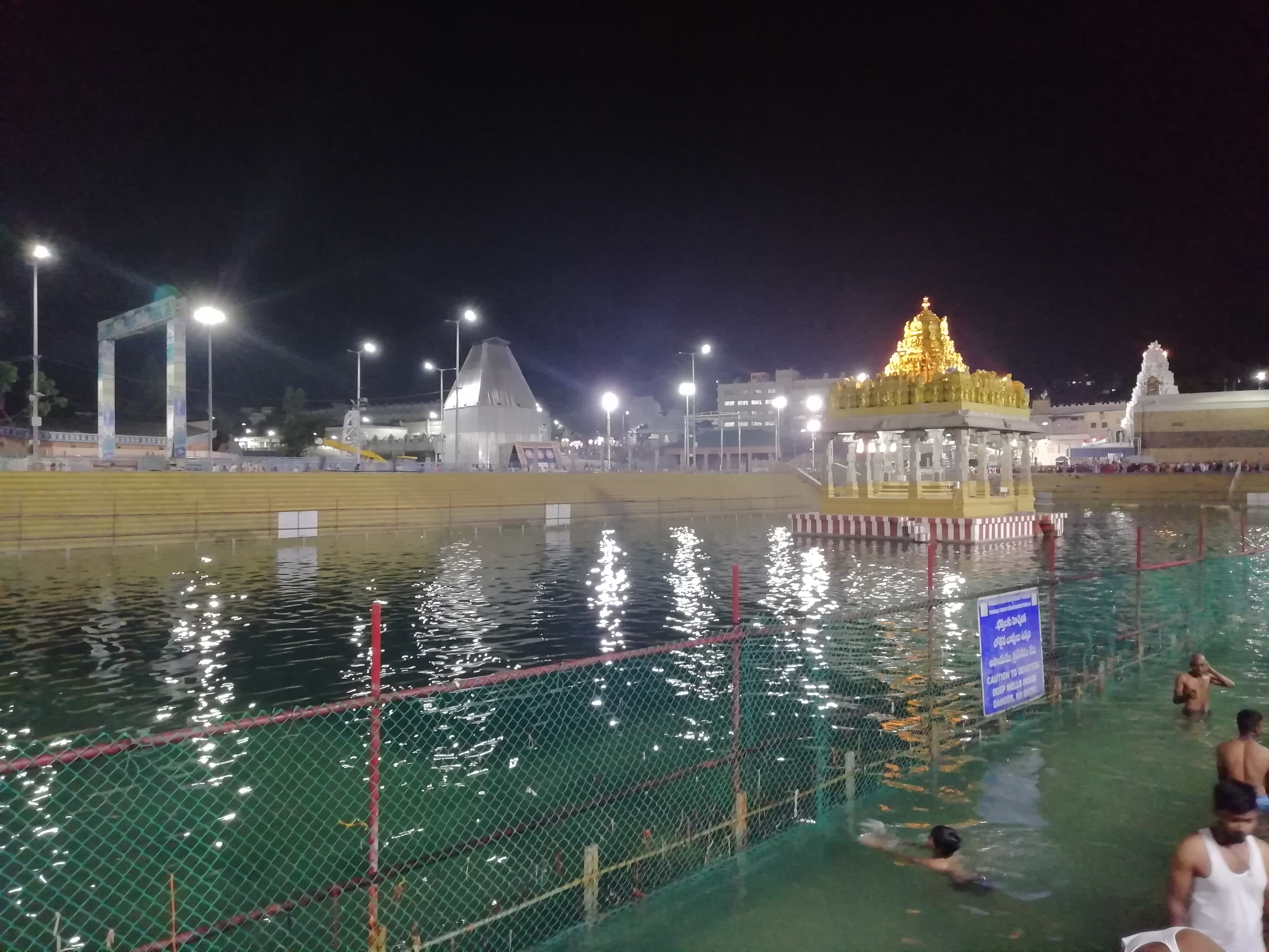 Swamy Pushkarini in Tirumala from Steps near Varaha swamy temple